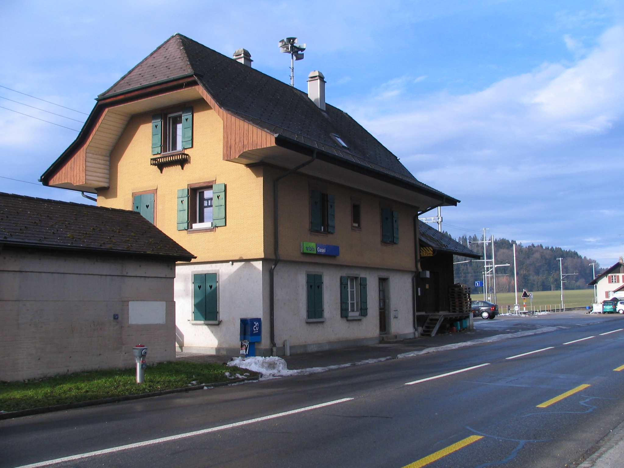 Train station in the village Gasel (Köniz / Canton of Bern / Switzerland)